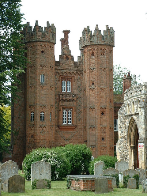 Deanery Tower in Hadleigh, Suffolk, England. A Grade I listed building.